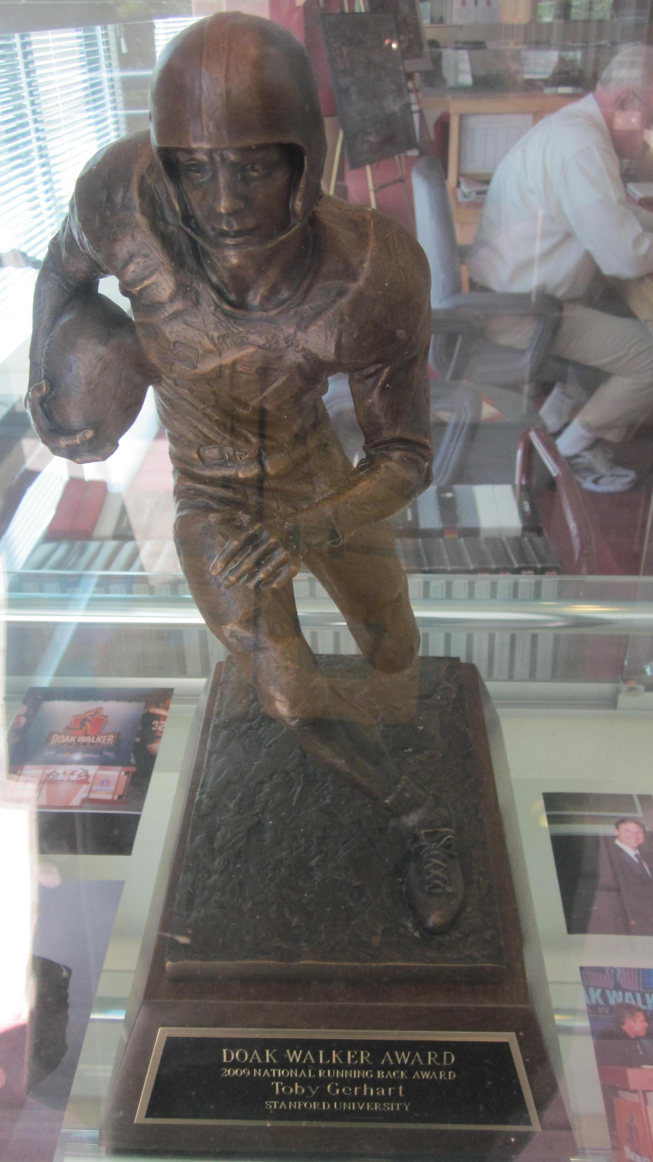 Toby Gerhart's Doak Walker Award on display at the Stanford Athletics Hall of Fame in the Arrillaga Family Sports Center on the Stanford University campus.